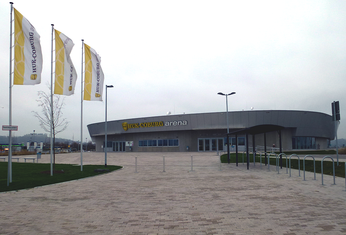 Sports hall HUK-Coburg with the castle Coburg on the left in the background